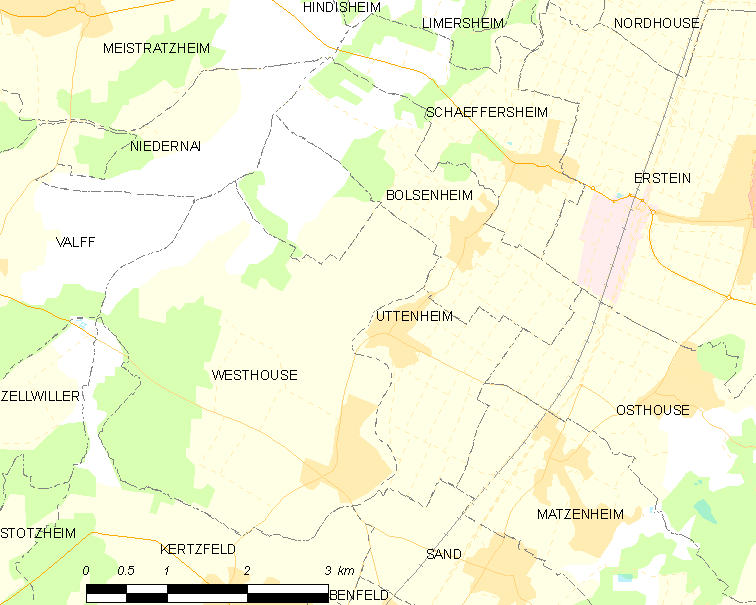 Map of French municipality